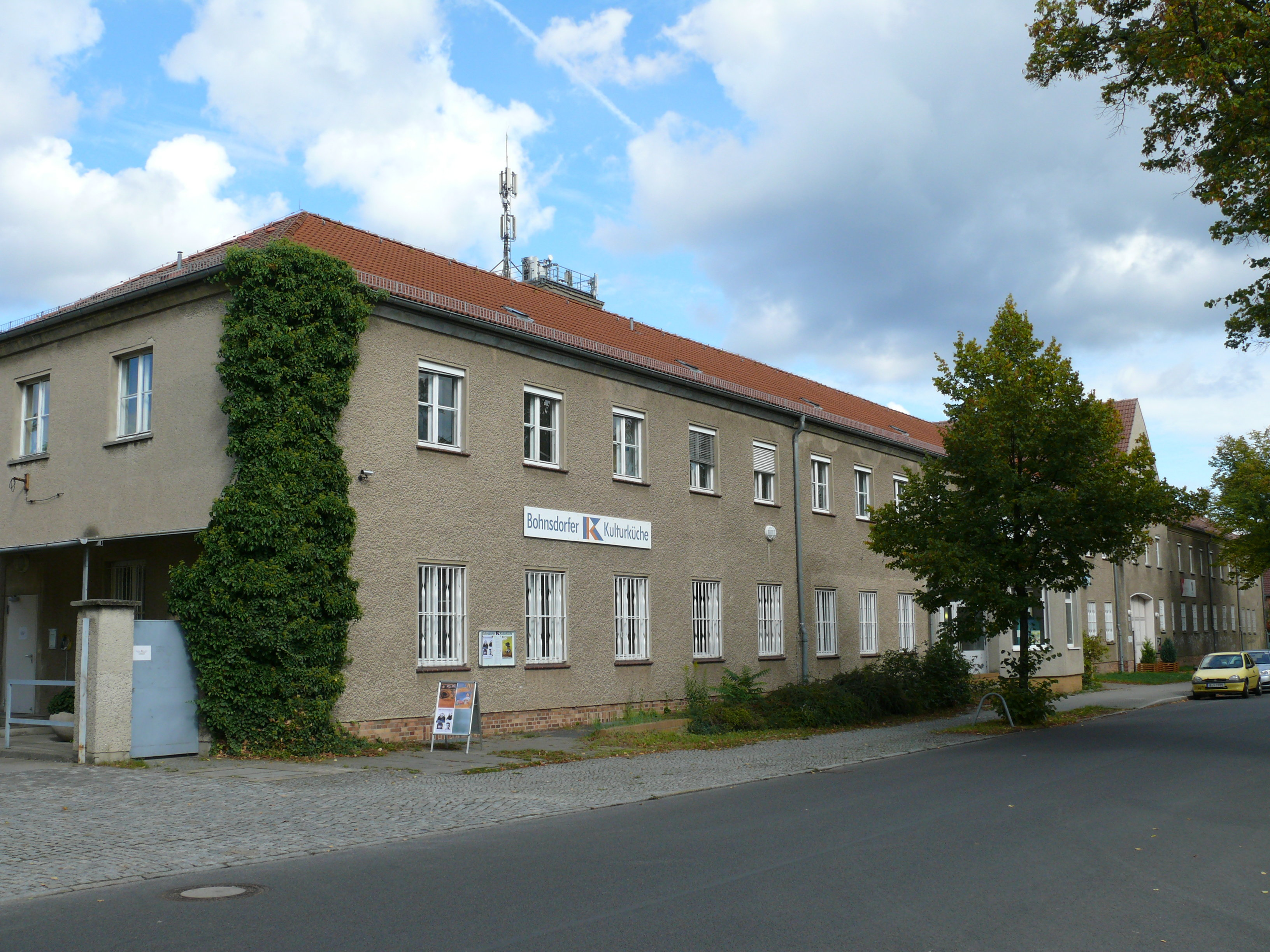 Berlin-Bohnsdorf Dahmestraße